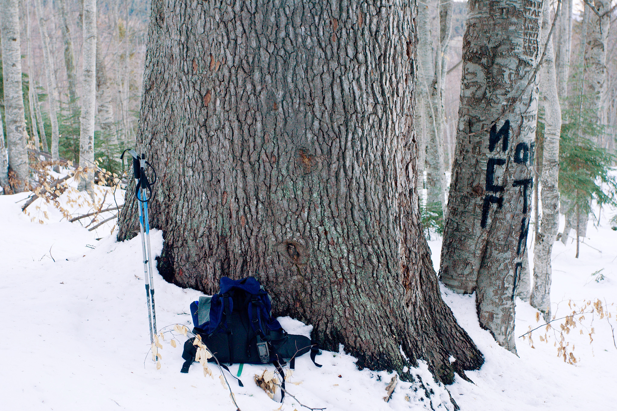 Visokata ela - a centuries-old Bulgarian Fir tree in Pirin mountain, Bulgaria